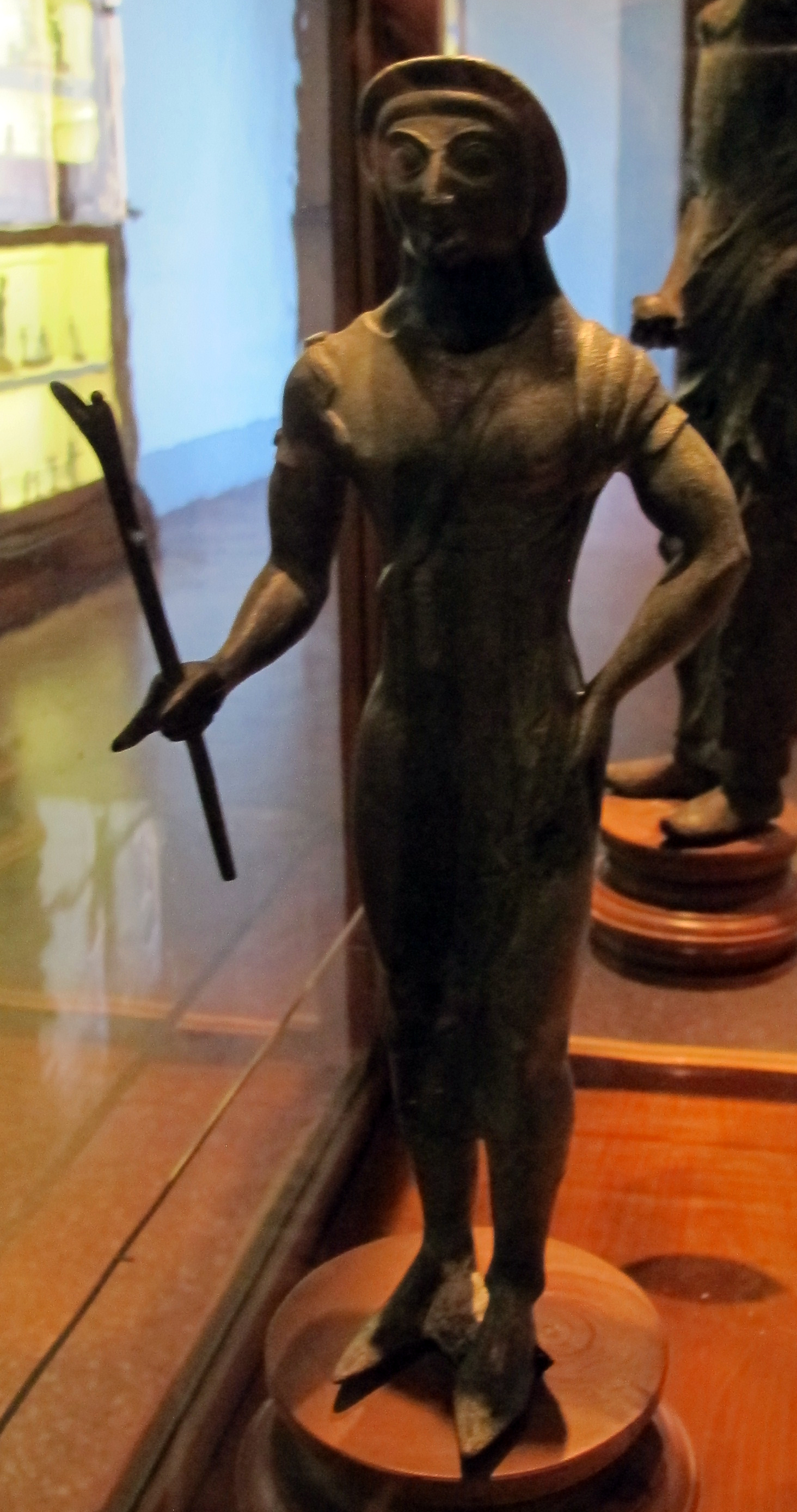 Etruscan bronze statuettes in the Museo archeologico nazionale (Florence)